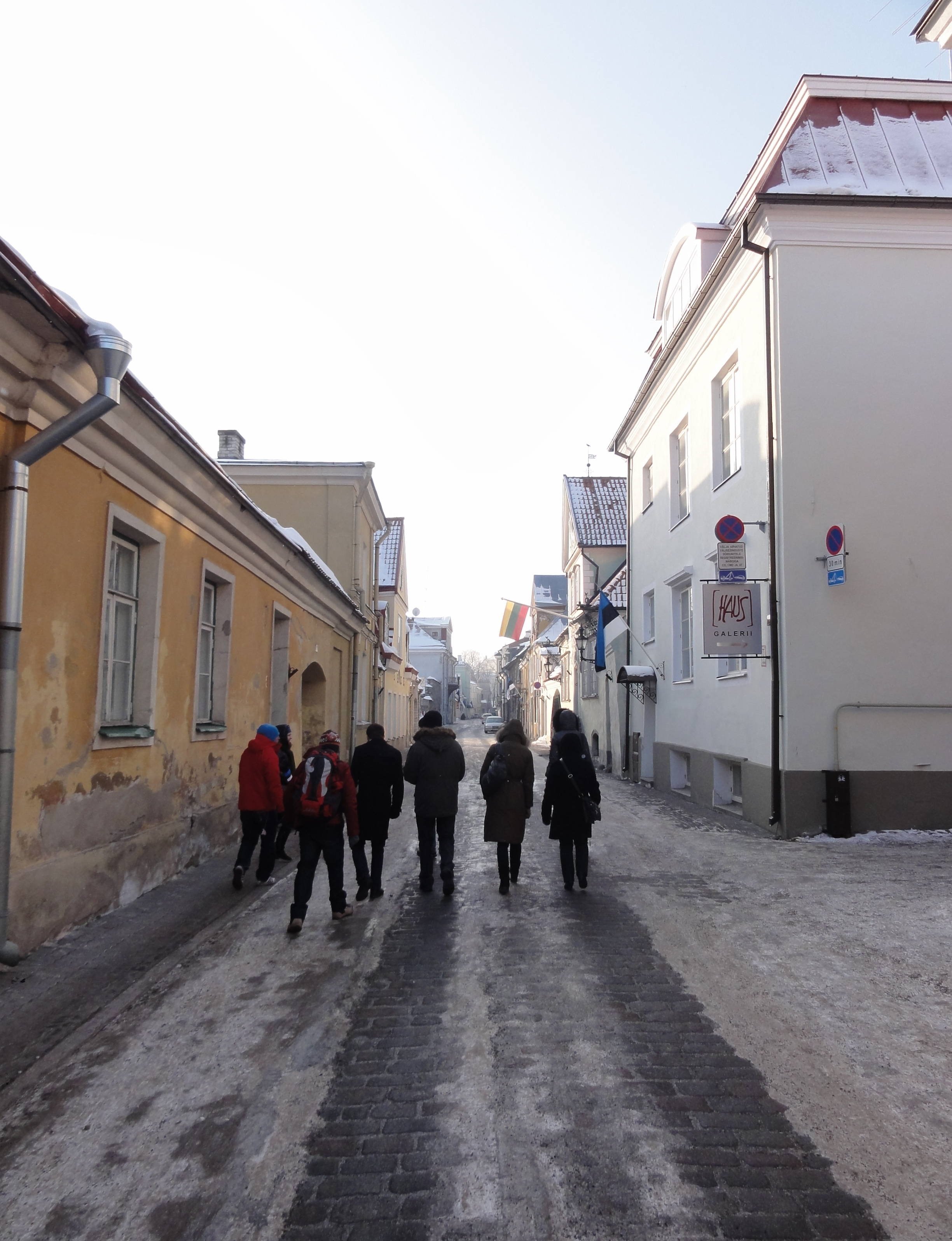 Uus tänav, Tallinn